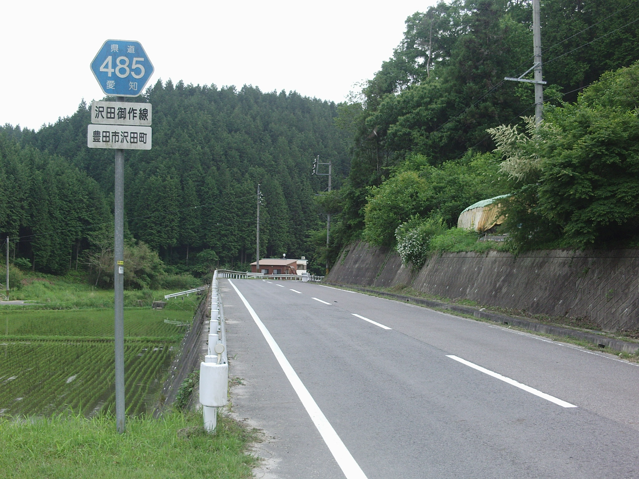 Aichi prefectural road No.485 in Sawadacho, Toyota, Aichi.